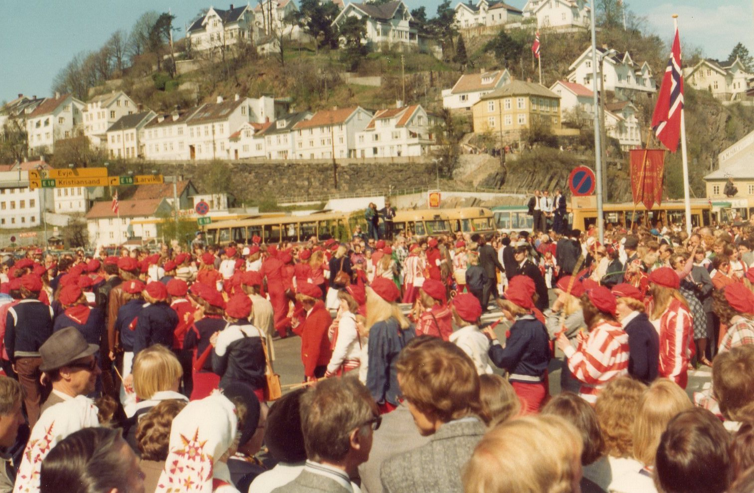 Rødruss in Arendal 1977